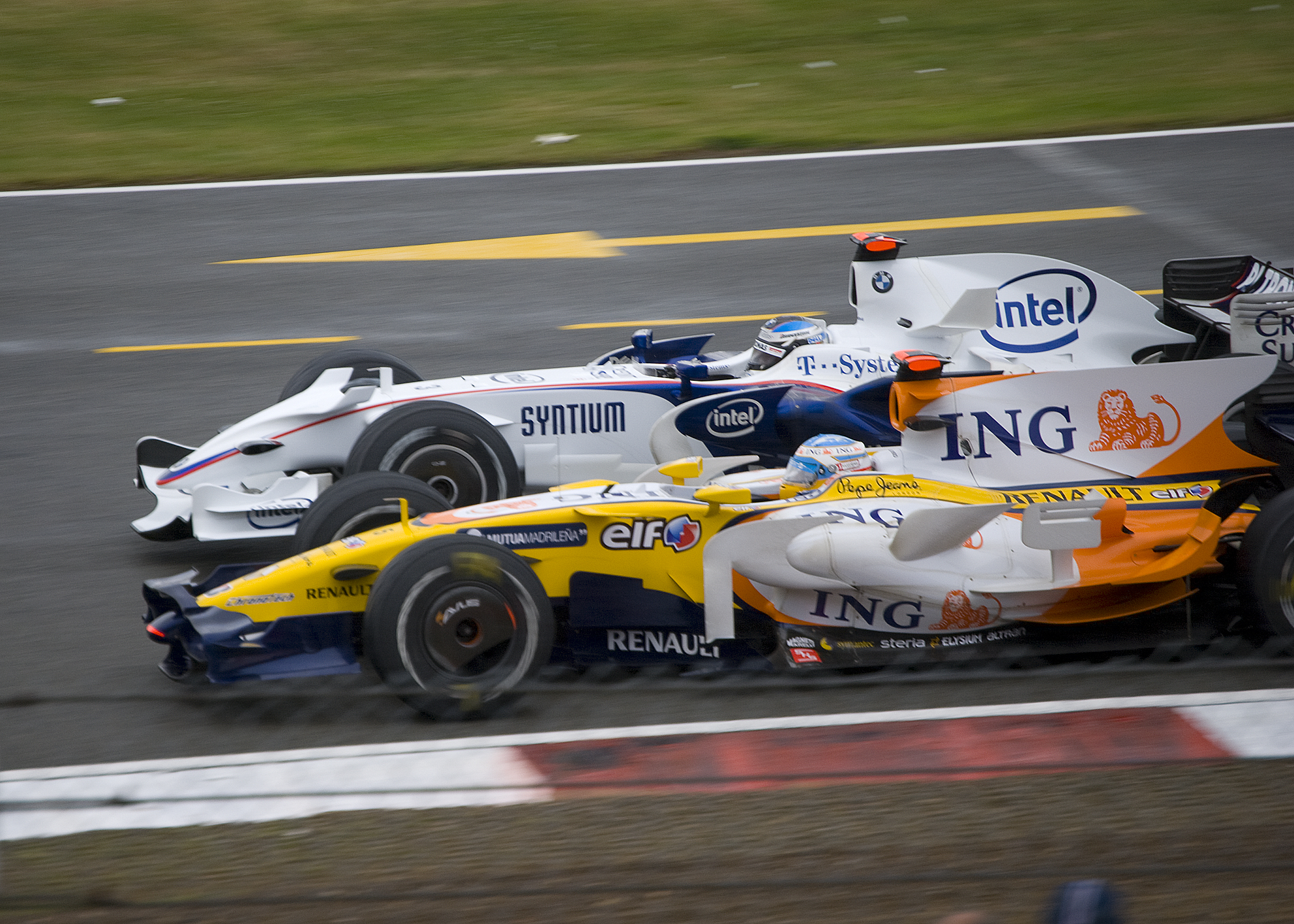 Nick Heidfeld (BMW Sauber) overtaking Fernando Alonso (Renault F1) at the 2008 British Grand Prix.